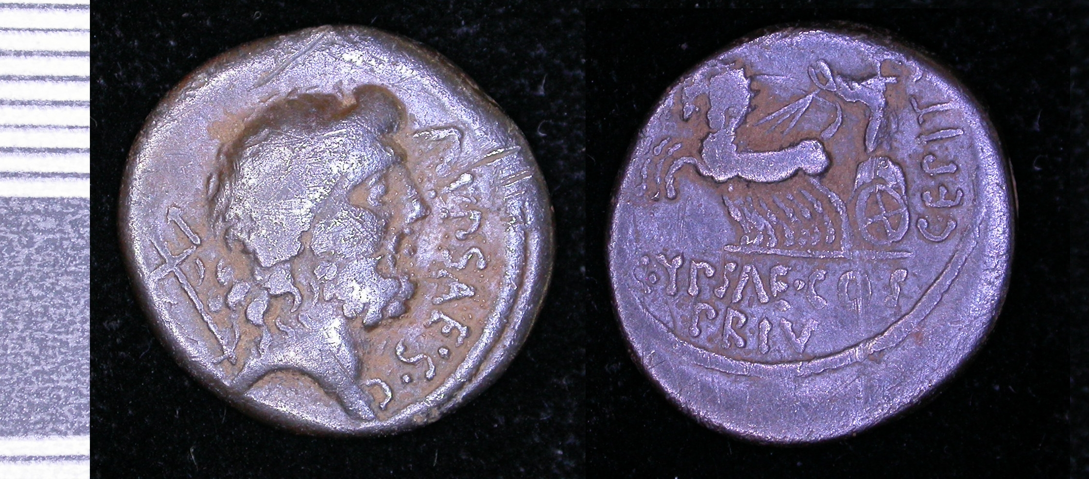 5 Roman silver denarii, numbered as images to right... 1 P. Plautius Hypsaeus RRC 420/1 O head of Neptune right trident behind P YPSAE S C 70BC R Jupiter in Quadriga CEPIT behind CEPIT // C YPSAE COS / PRIV in ex. 4 Vespasian RIC 356 O right facing laureate bust IMPCAESVESPAVGPMCOSIIII 72-3 R Augurate emblems, sprinkler, jug, lituus and simpulum AVGVR TRI POT 3 Flavian O right facing laureate bust - possibly Vespasian 69-81 ? R standing figure? 2 Antoninus Pius O right facing laureate bust ANTONINVS[..] VG 138-161 ? R seated female right with cornucopia? TR[...]C 5 Faustina I (deified) ? O bust right DIVA FAVSTINA 147- R Ceres or Aeternitas standing left, raising hand & holding torch. AVGV-STA